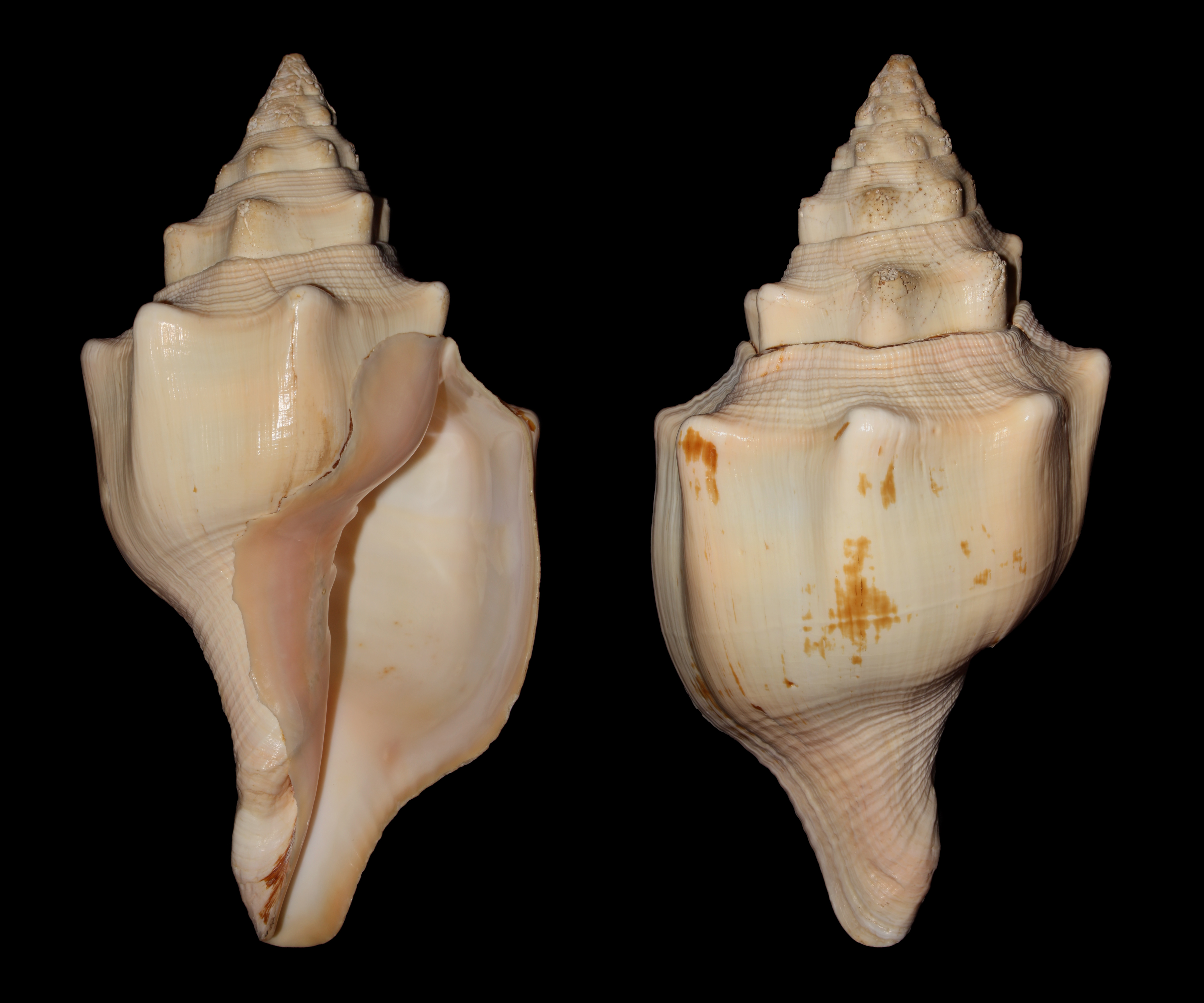 Turbinella angulata Lightfoot, 1786. West Indian Chank. 30 cm.